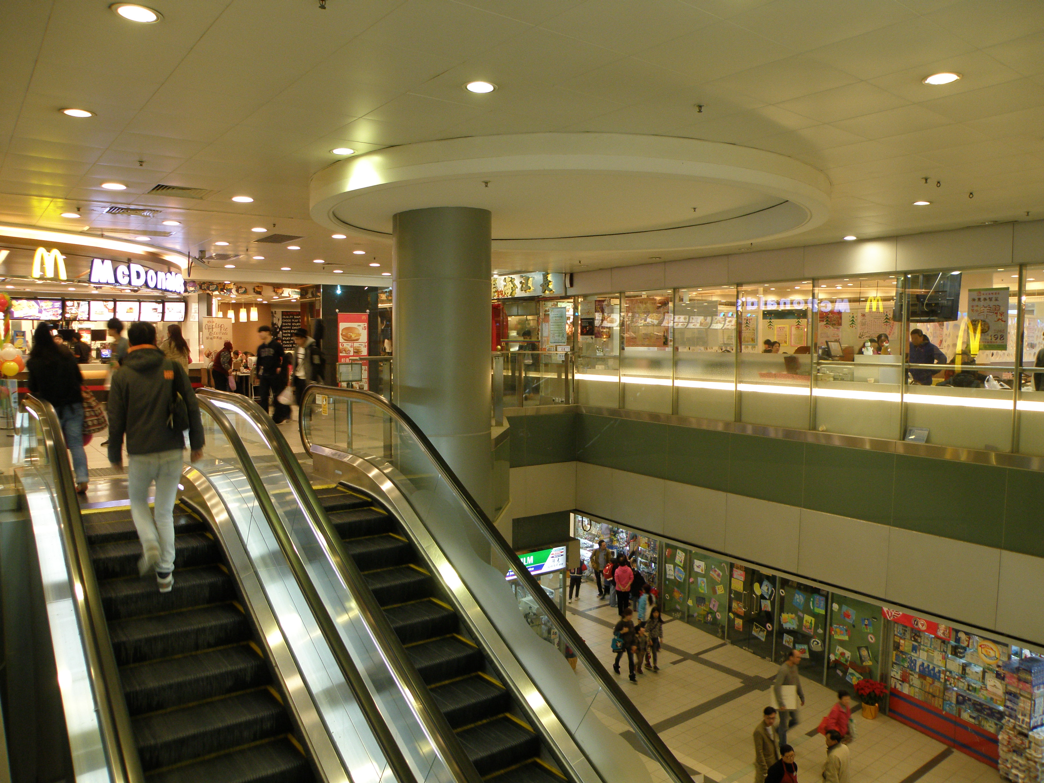 Kam Tai Shopping Centre in Ma On Shan, Hong Kong.